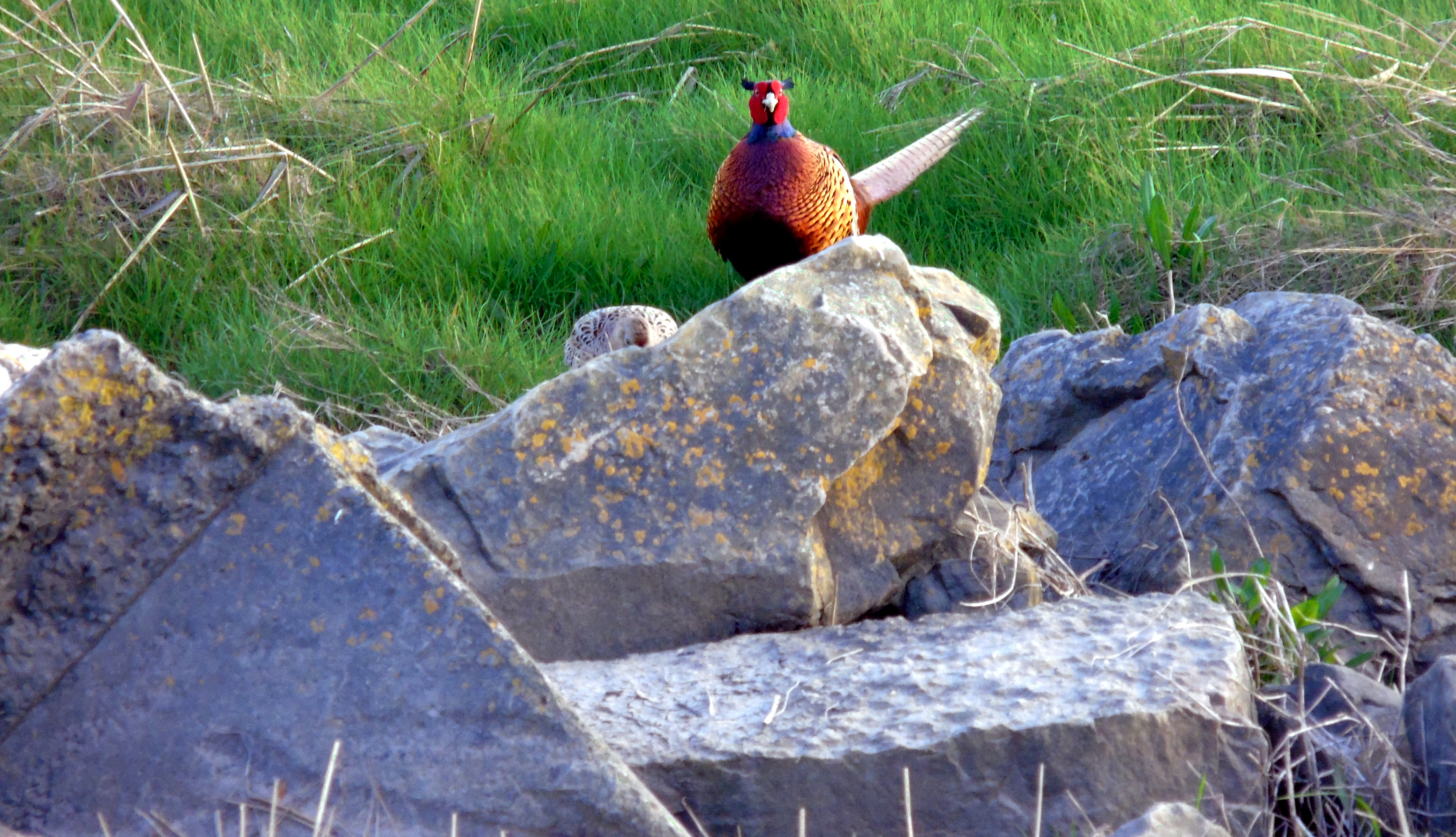 Ring-necked pheasants on shore of the Severn Estuary at Newport Wetlands RSPB Reserve